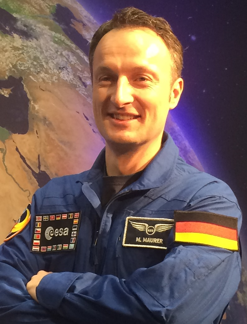 Matthias Maurer during his introduction press conference at the European Space Operations Centre in Darmstadt.